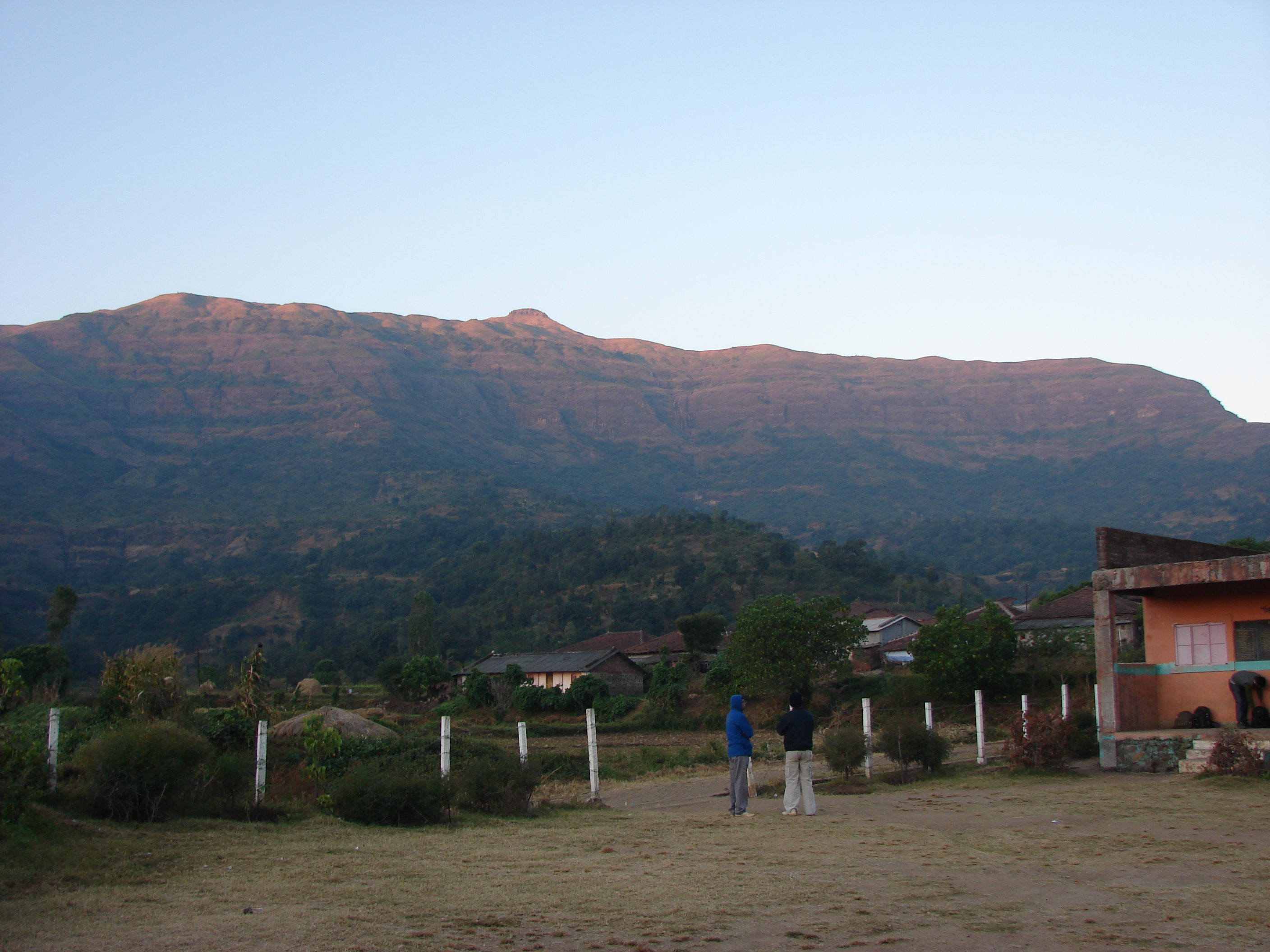 Kalasubai is the tallest peak in Maharashtra state in India